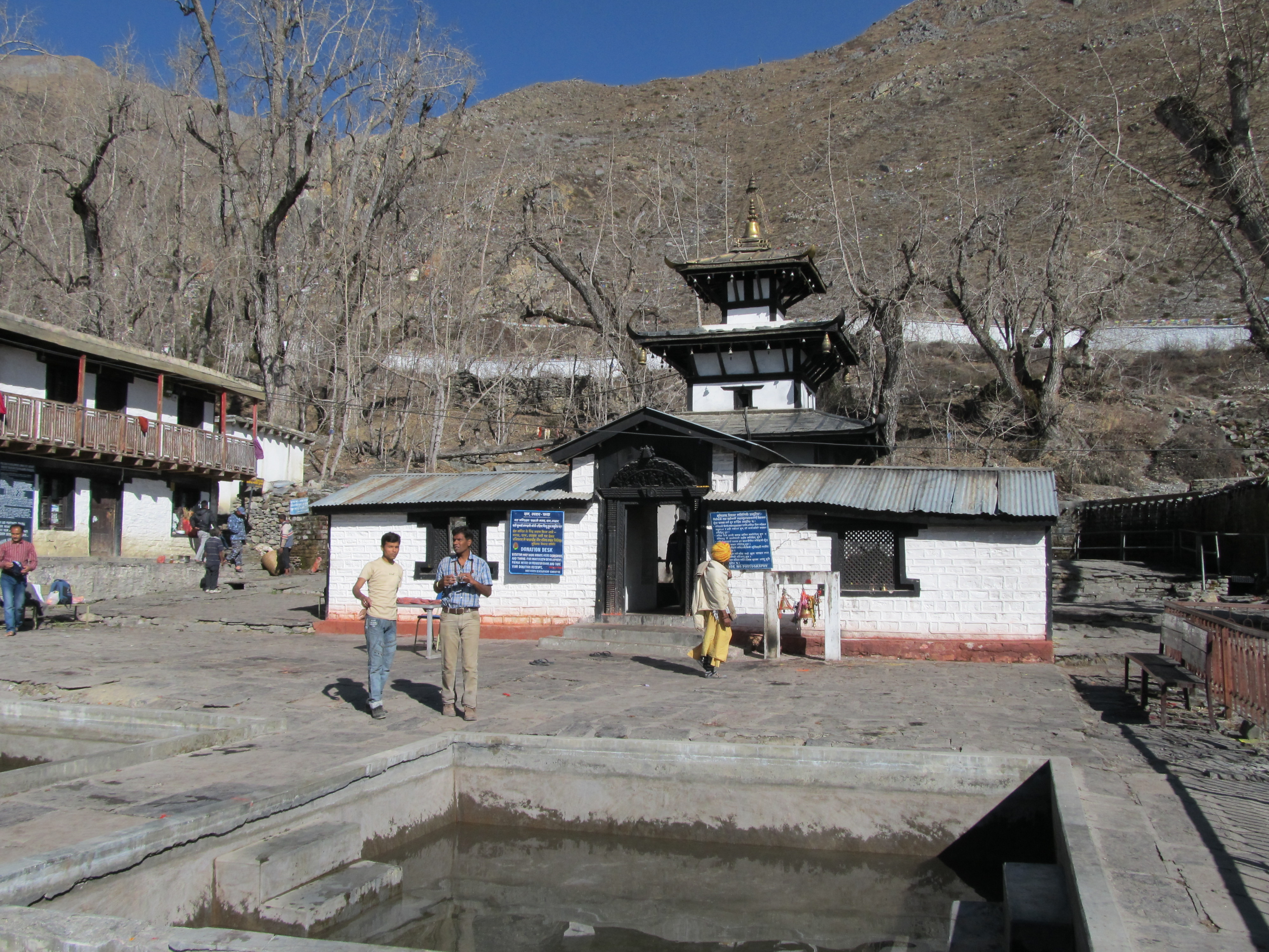 Shiva Parvati Mandir, Muktinath